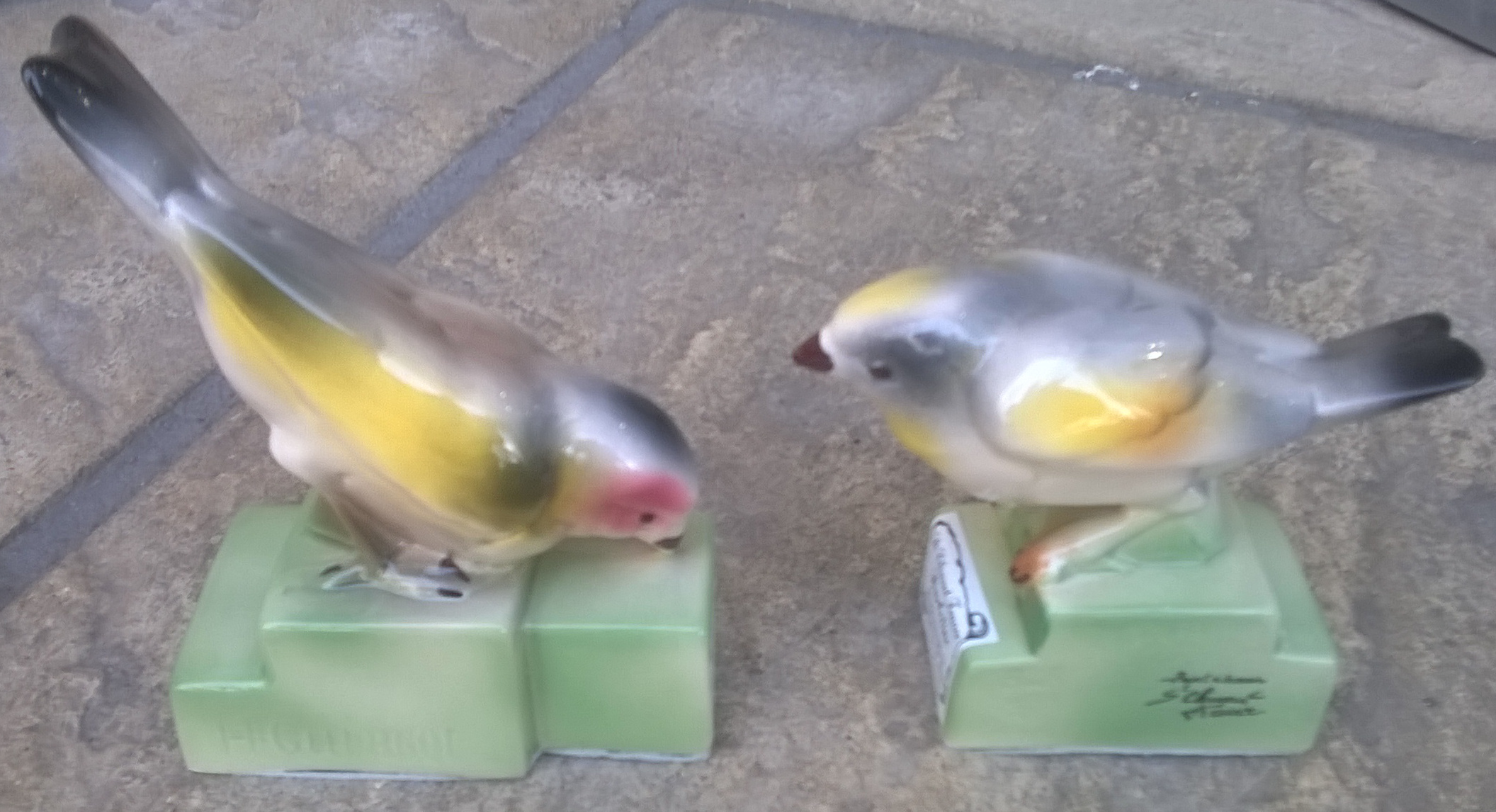 Henri Guingot sculptures of birds ca. 1920 by the Saint-Clément pottery in majolica fashion.